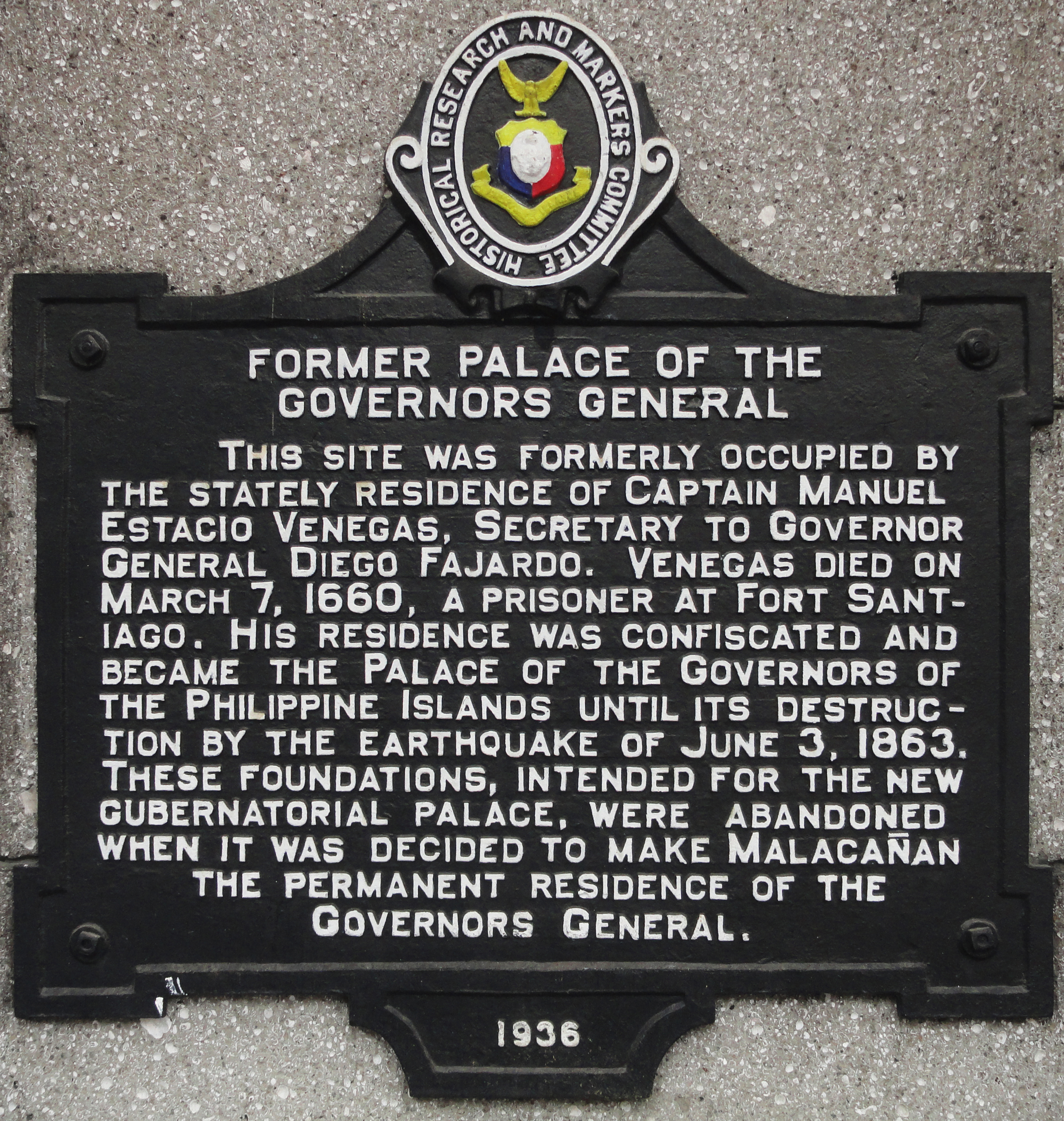 historical marker Palacio del Gobernador